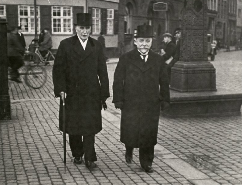 Axel Bang and Carl Theodor Zahle at August Goll's funeral, 1936.